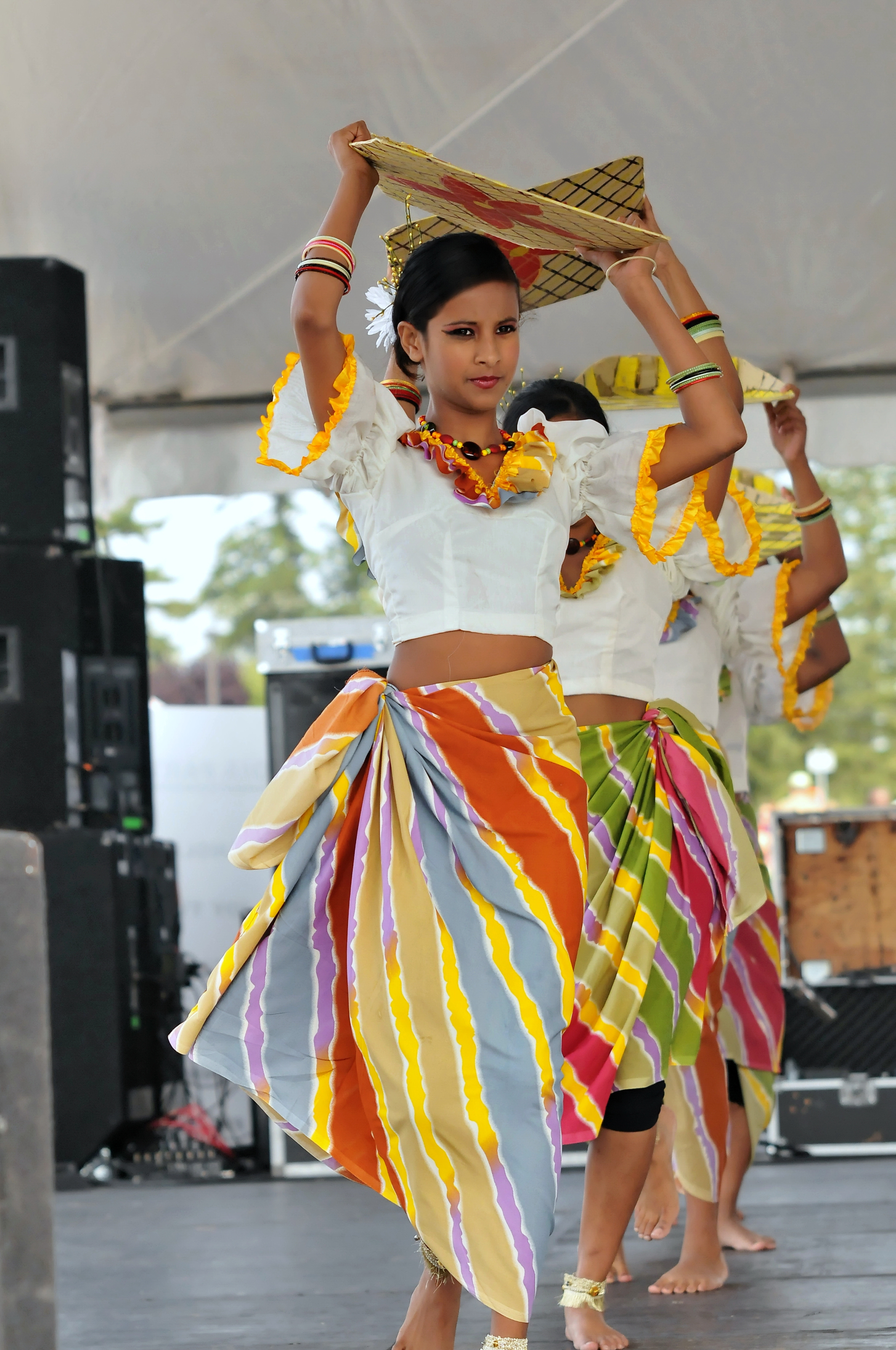 Traditional Sri Lankan harvesting dance. Sri Lankan Friendship Association of BC. Langley International Festival 2010.